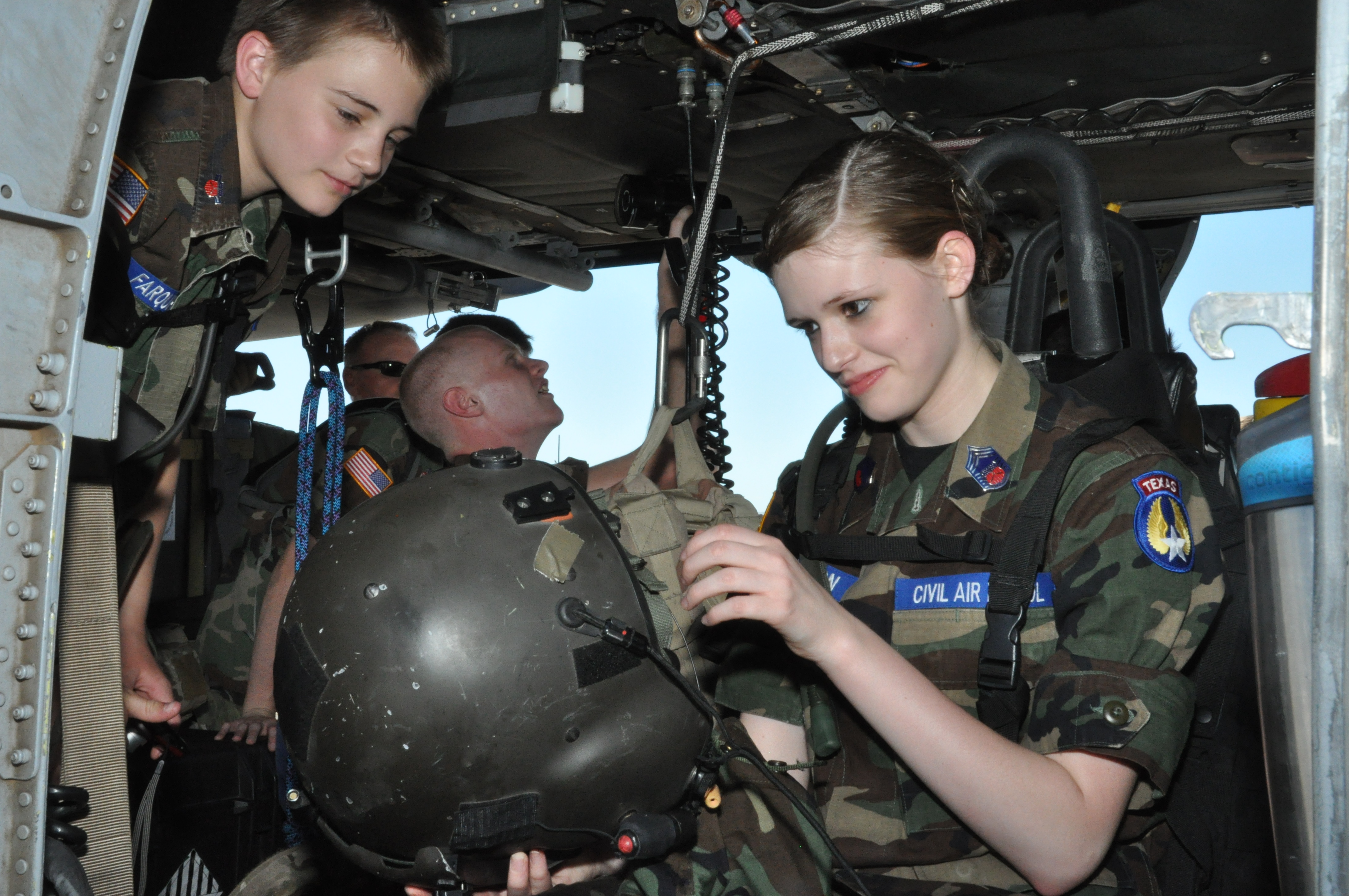 More than a dozen middle school and high school-aged civil air patrol students were treated to a tour of the 305th Rescue Squadron's HH-60 Pave Hawk helicopter June 13 at the Naval Air Station Fort Worth Joint Reserve Base, Texas. They were shown all the aminties that this metal giant has to offer to assist the aircrews in their search and rescue missions.